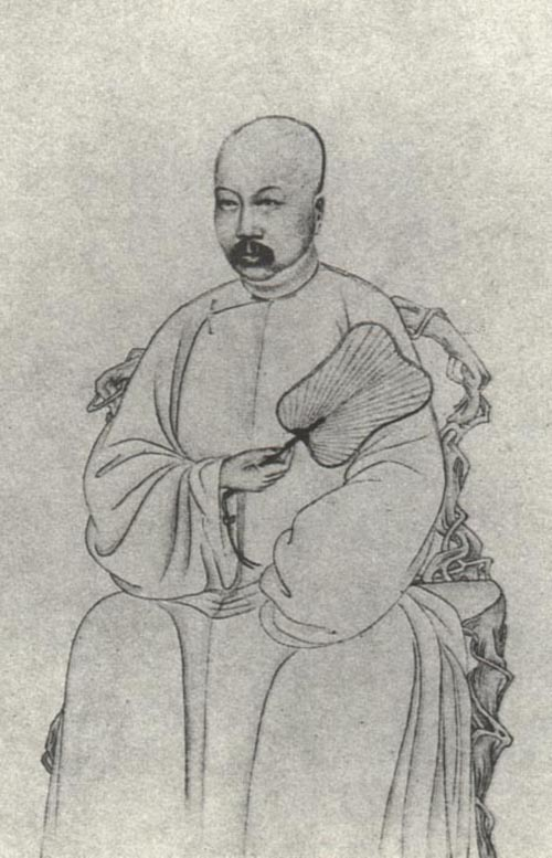 ZHANG Peilun, scholar of the Qing Dynasty.